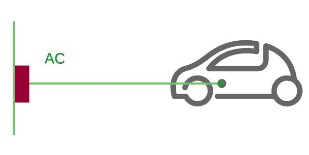 Mode 1 Recharge EV